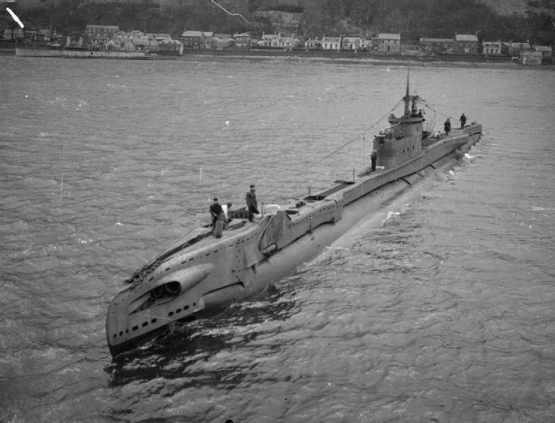 HMSM TUDOR, T class submarine, underway leaving Holy Loch.